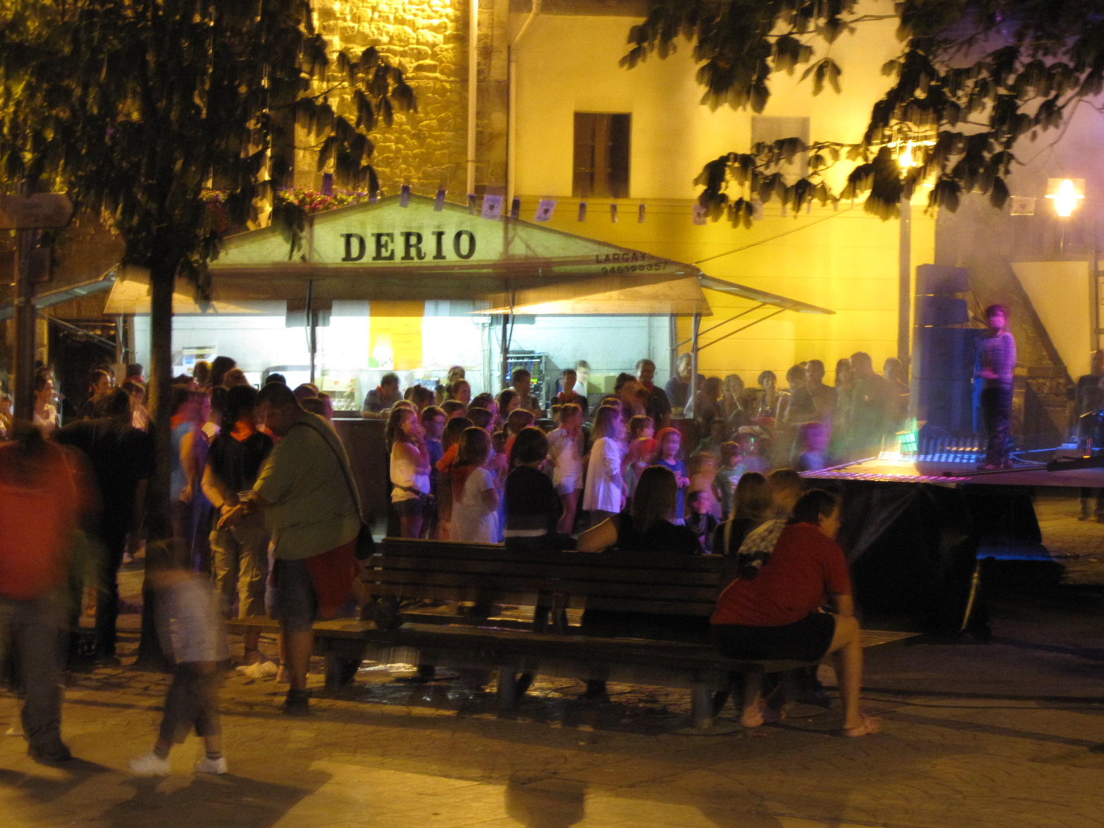 Celebration in Larrabetzu, Biscay.